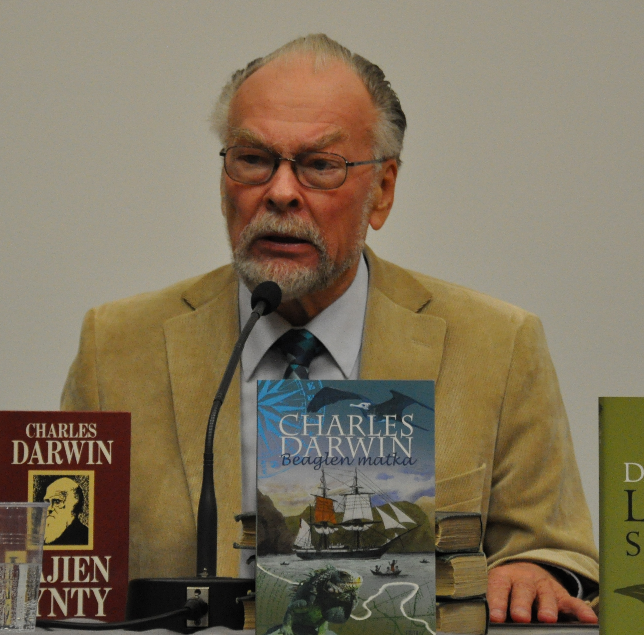 Finnish biologist Anto Leikola at the Turku Book Fair 2009.